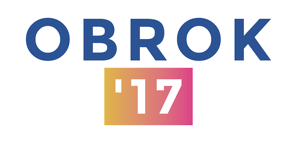 The logo of Obrok (festival)